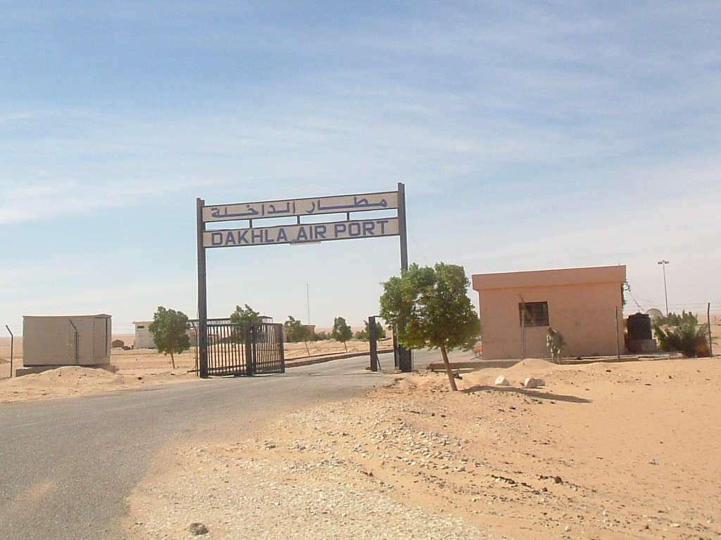 Dakhla city in Western Sahara